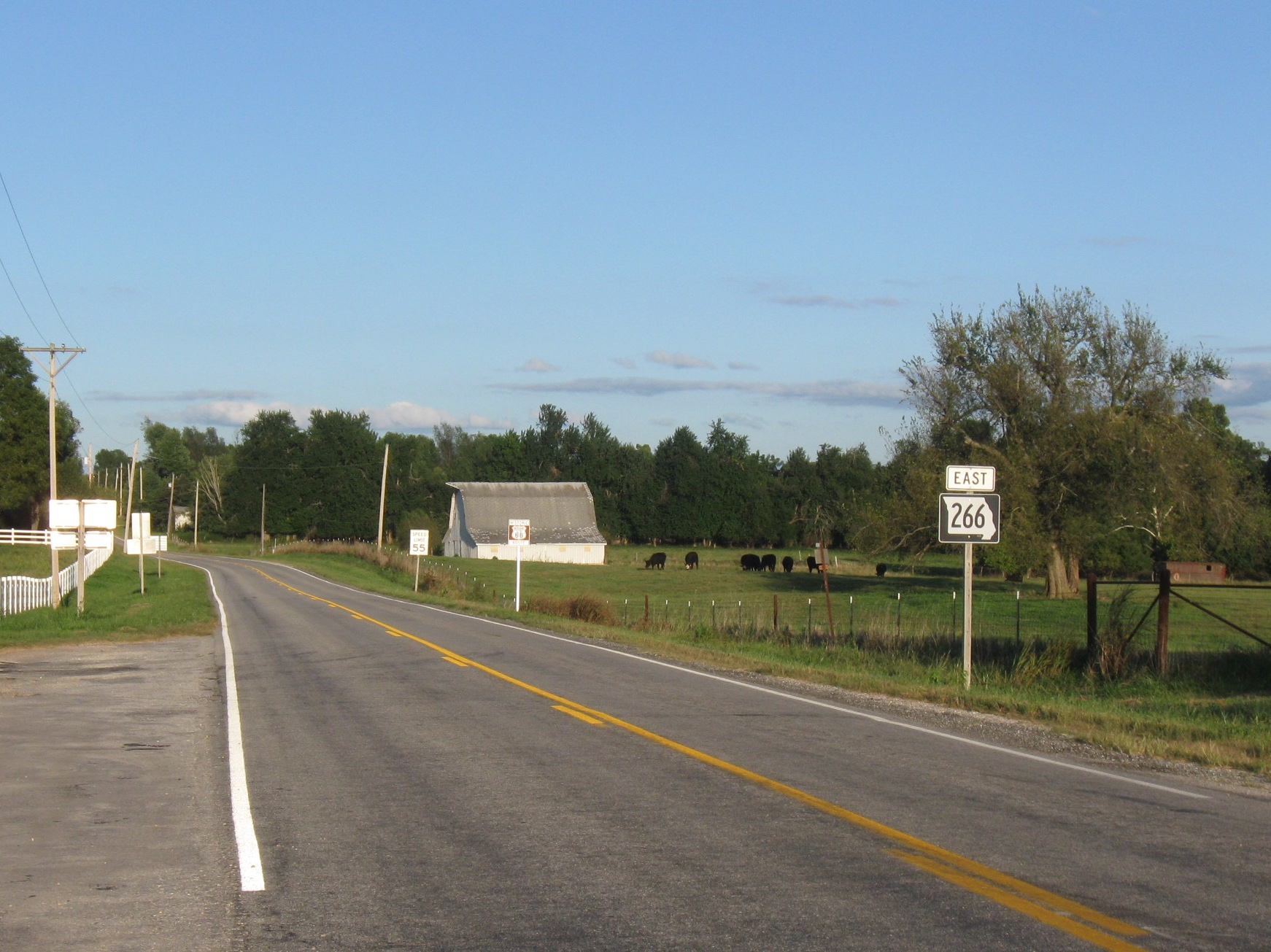 Eastbound Missouri Route 266 in Halltown.